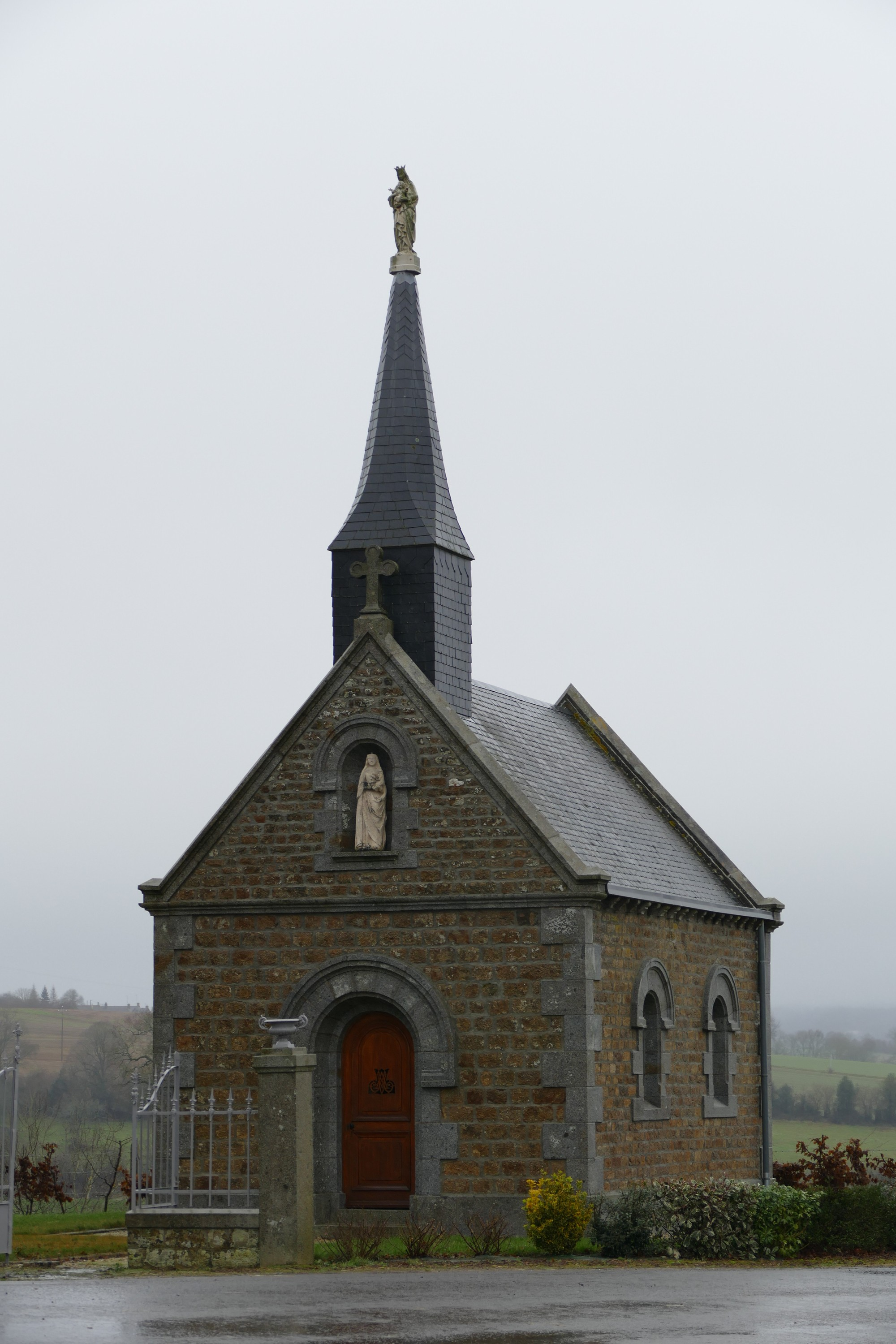 Chapel in Saint-Ellier-les-Bois (Orne, Normandie, France).